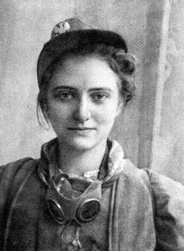 WarsawUprising: Courier from Starówka.